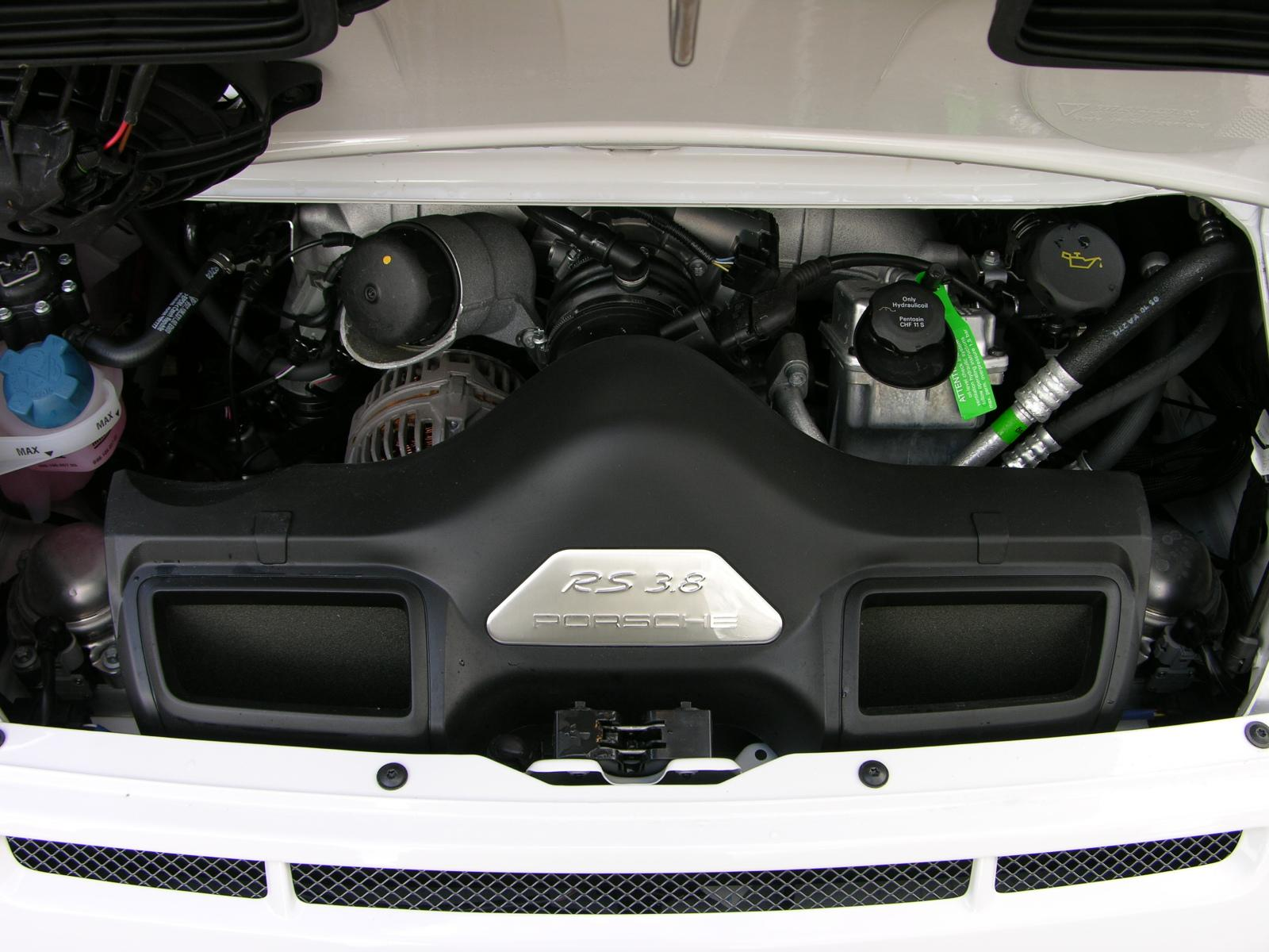 Engine bay of a 2010 Porsche 997 GT3 RS 3.8.